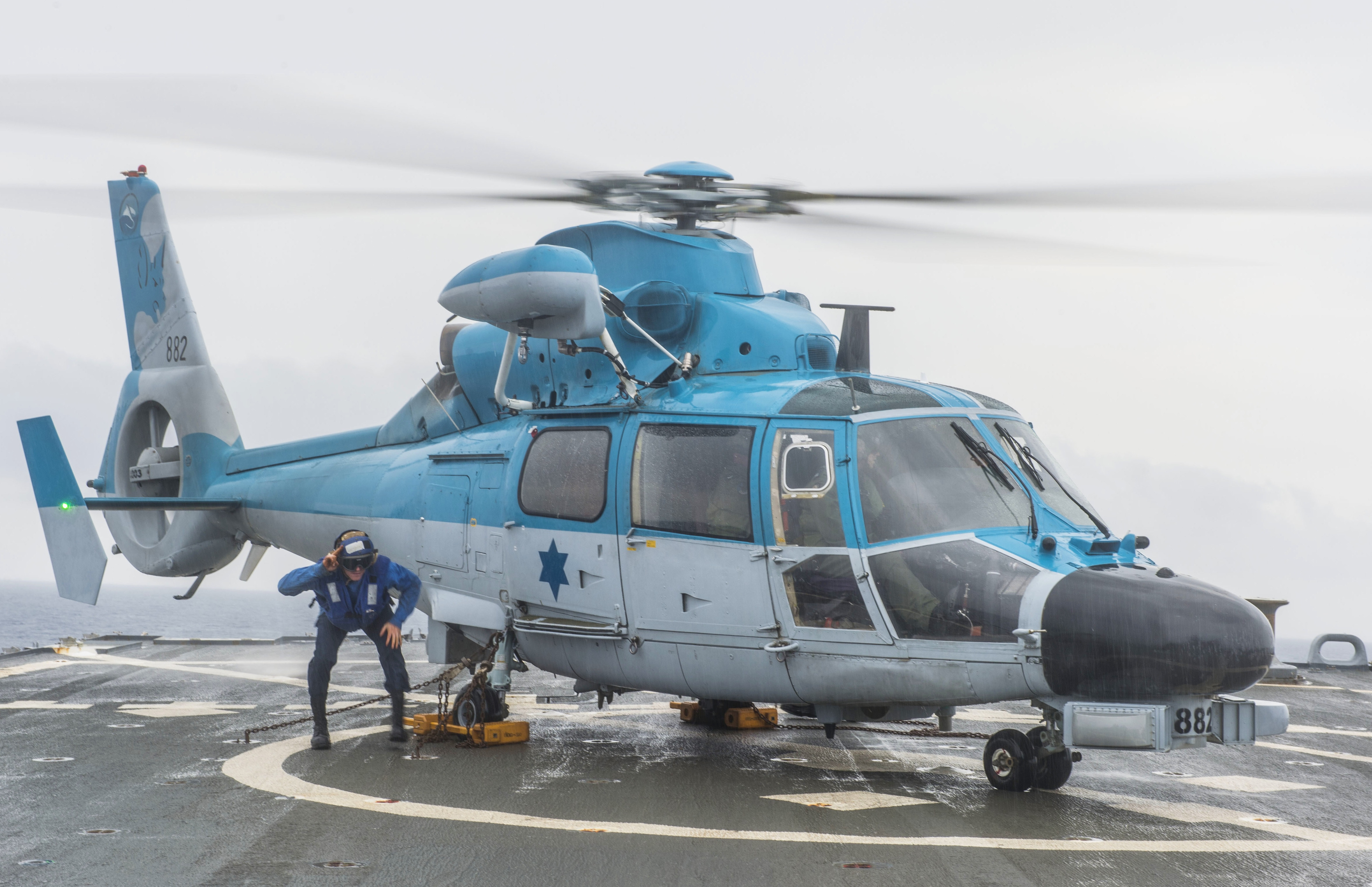 150513-N-XB010-197 MEDITERRANEAN SEA (May 13, 2015) Boatswain’s Mate 3rd Class Corey Piper, from Rome, Ga., salutes to indicate he is done securing an Israeli helicopter to the flight deck so that personnel can board it during flight operations aboard USS Laboon (DDG 58) May 13, 2015. Laboon, an Arleigh Burke-class guided-missile destroyer, homeported in Norfolk, is conducting naval operations in the U.S. 6th Fleet area of operations in support of U.S. national security interests in Europe. (U.S. Navy photo by Mass Communication Specialist 3rd Class Desmond Parks/Released)